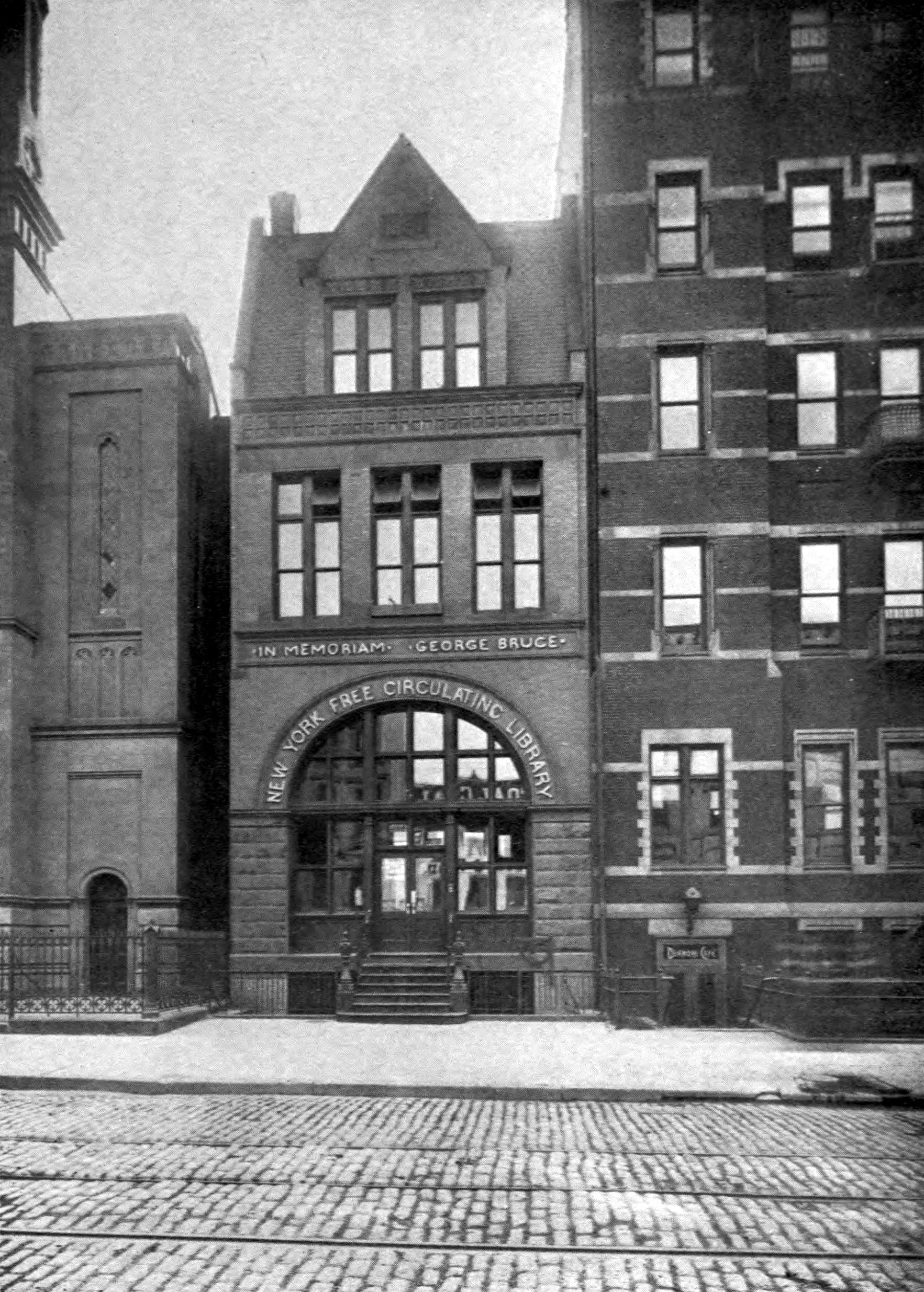 Photograph of the George Bruce Branch of the New York Free Circulating Library.